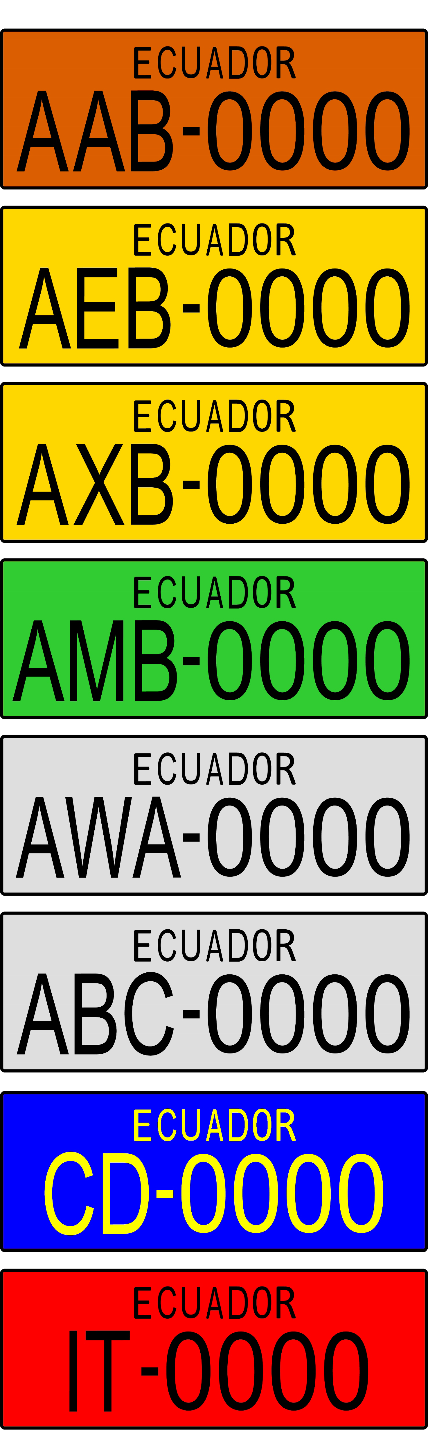 Examples of licences plates from Ecuador (Public, Government, Official Use, Municipal, Police, Private, Diplomatic Services, Temporary Admission)